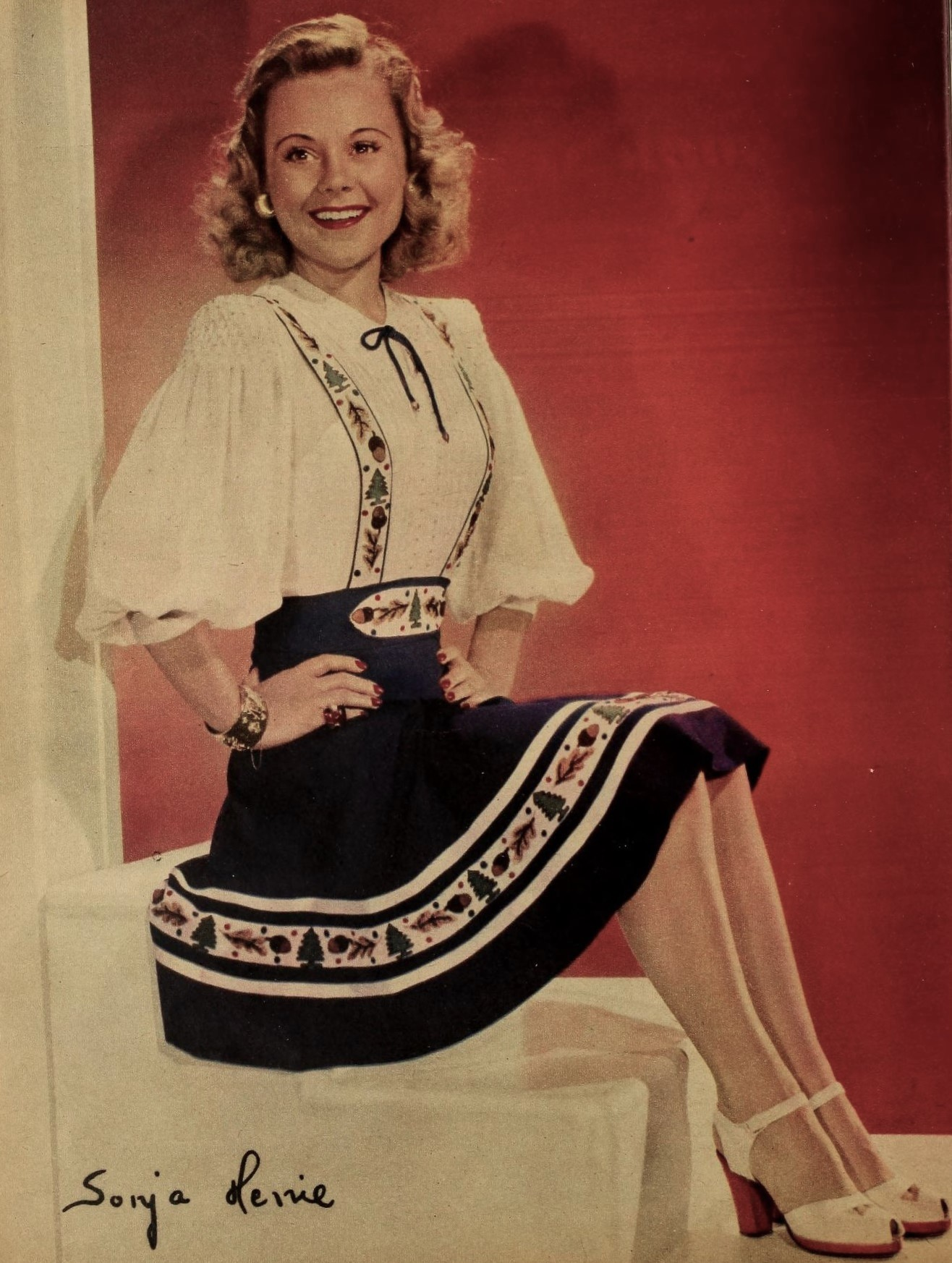 Sonja Henie 1944